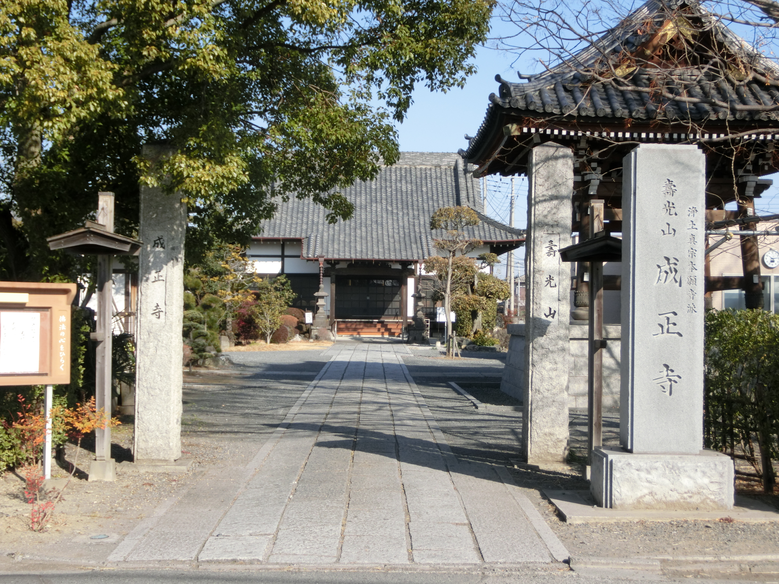 Jojo-ji (Gyoda)